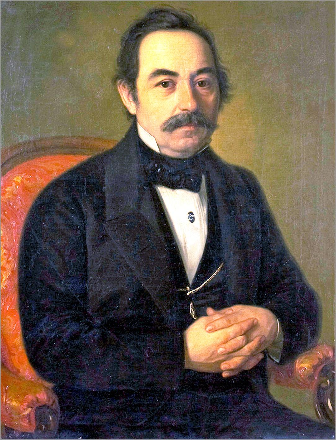 Portrait of Jovan Hadržić by Novak Radonić, 1854.